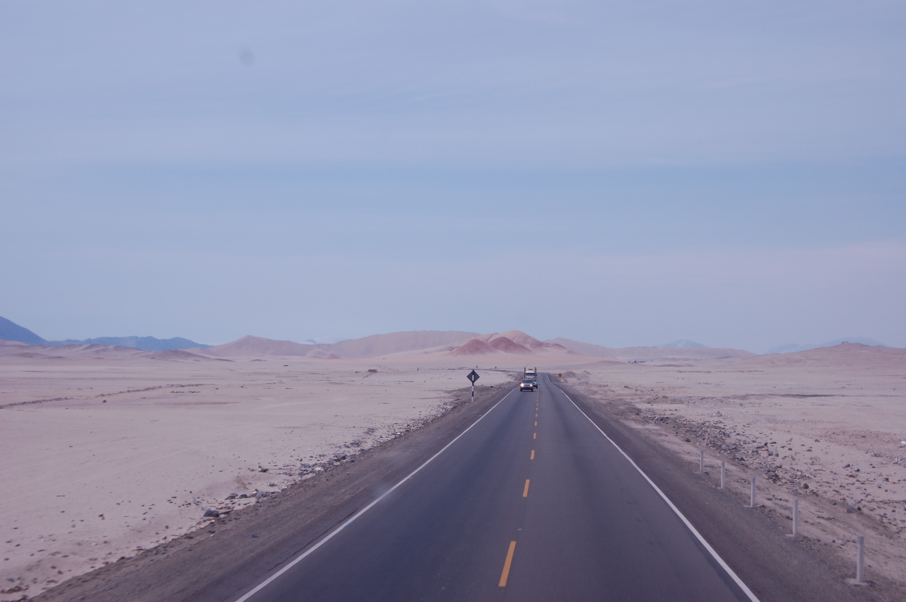 The desertlike landscape along the coast, north of Lima in Peru.